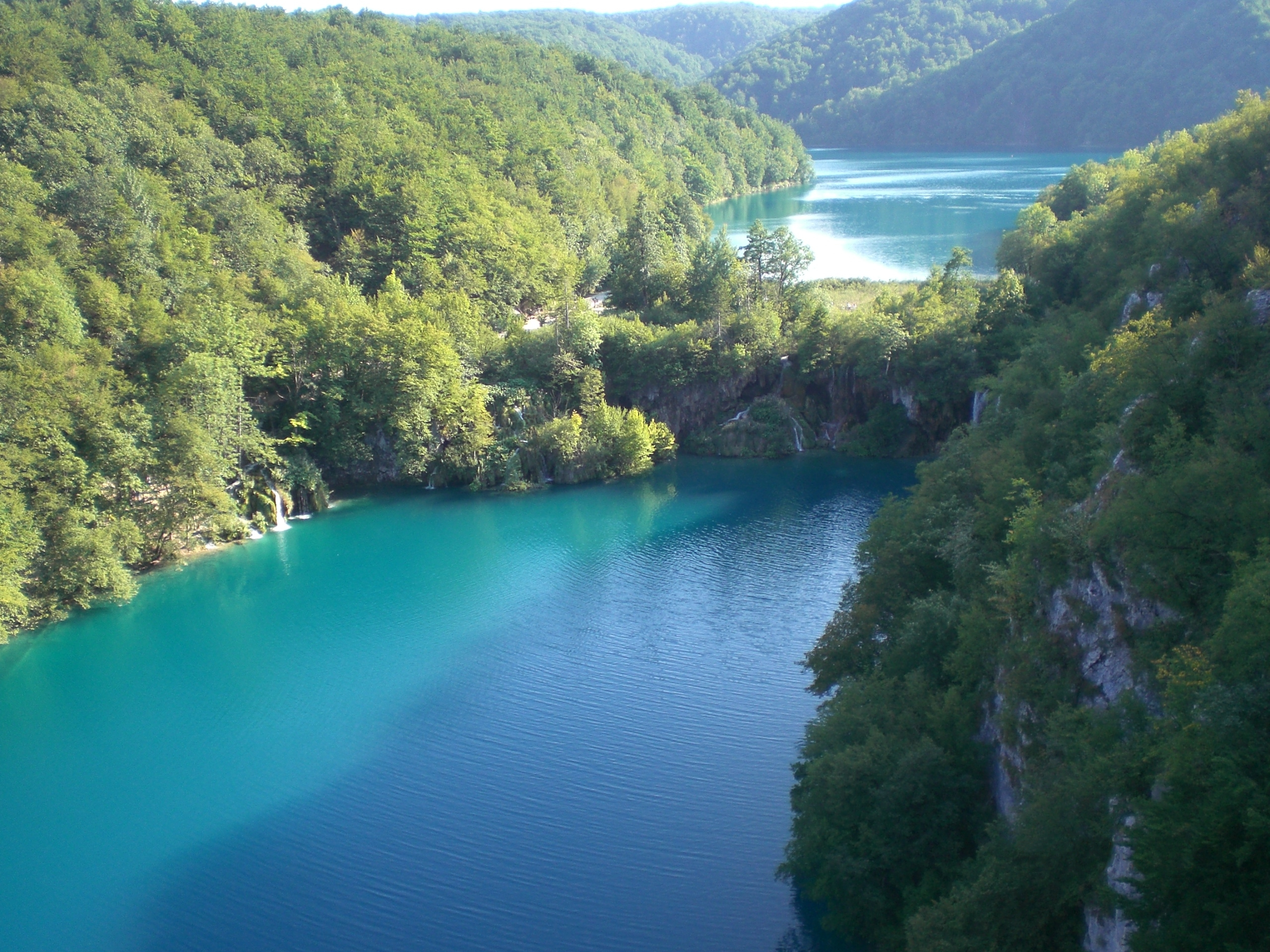 Two lakes of the Plitvice Lakes National Park with intermediate waterfalls